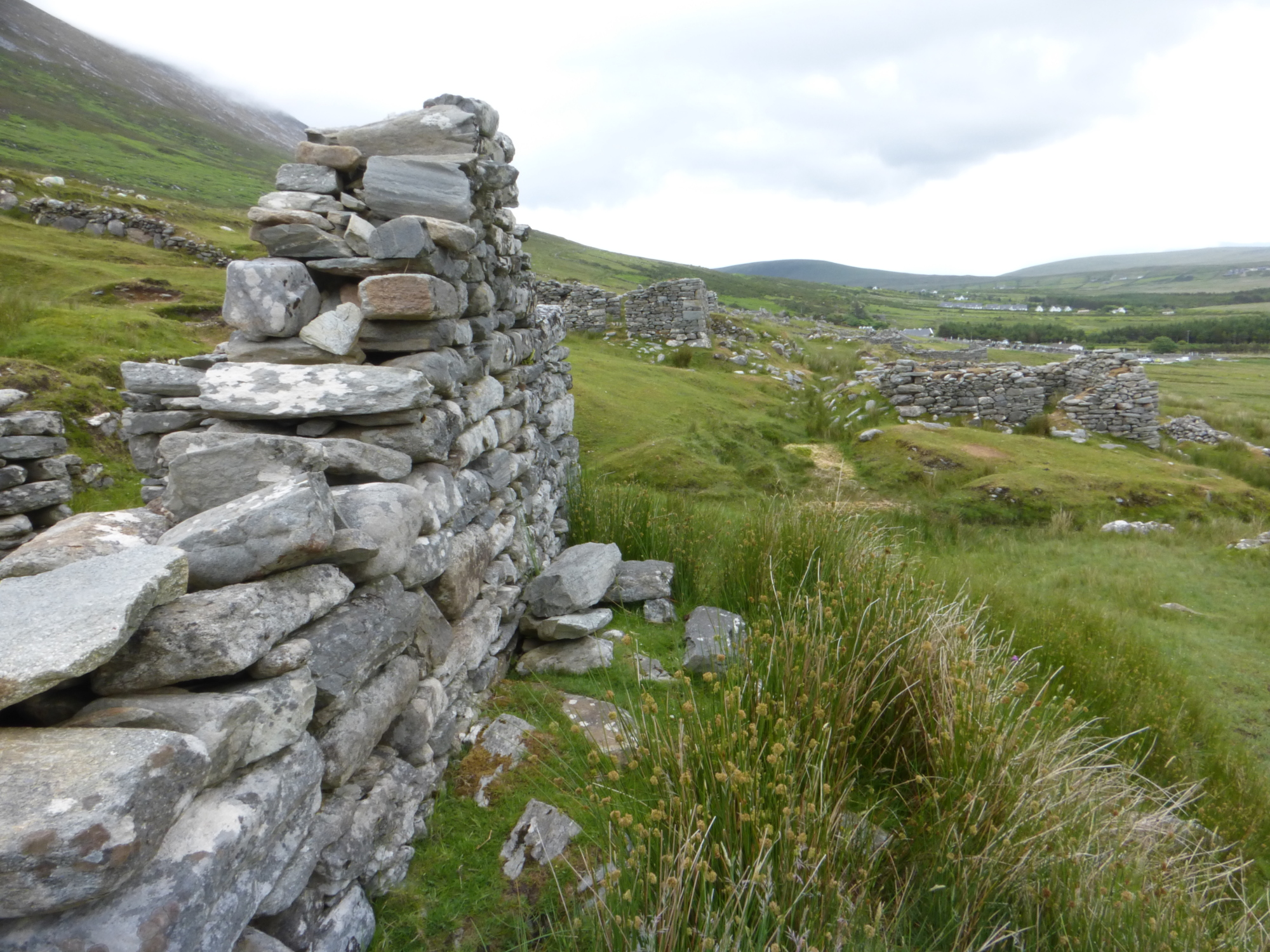 View of deserted village beside the ruins of the one of the buildings